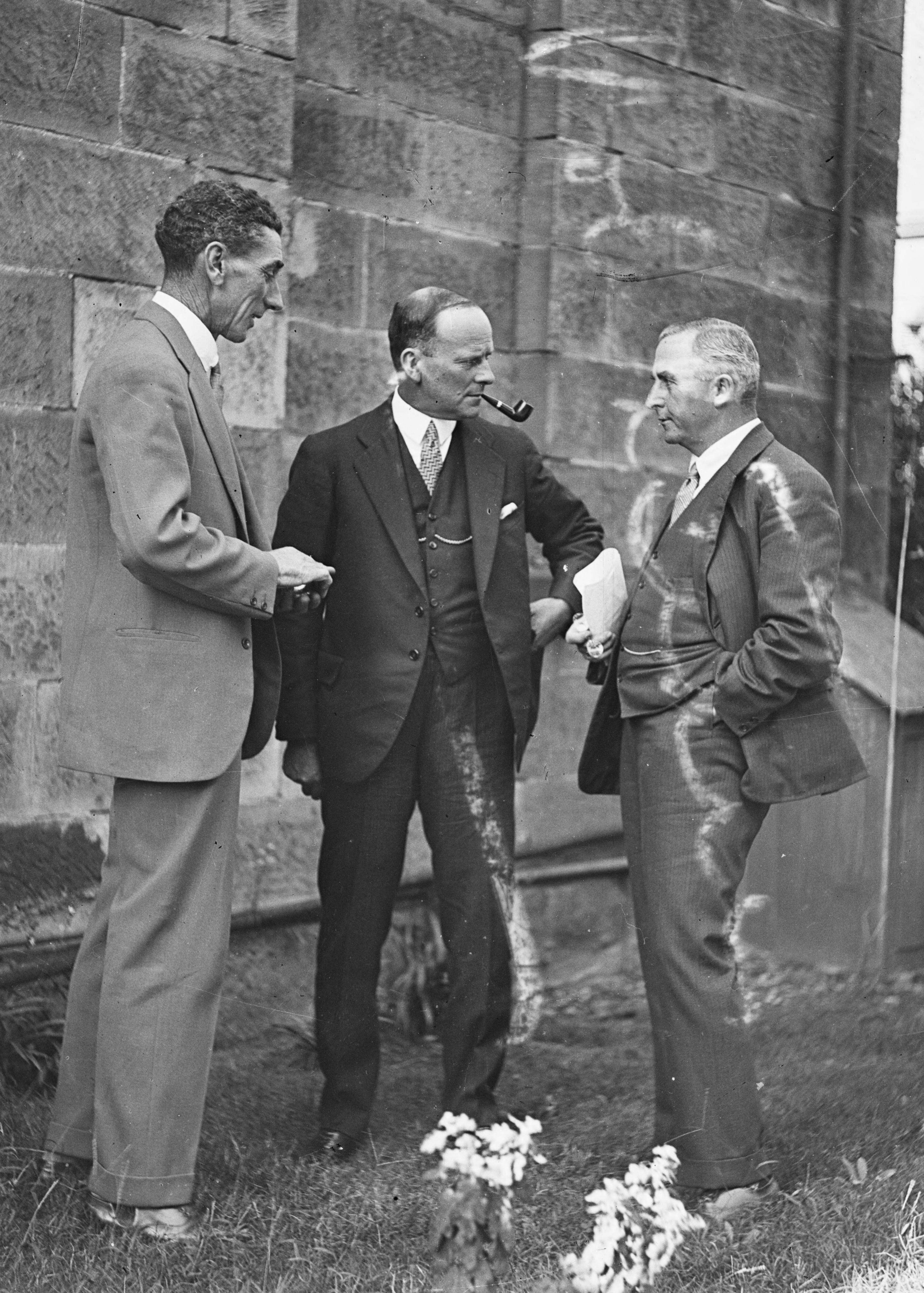 New South Wales Country Party politicians Bill Hedges, Mick Bruxner, and Alf Pollack